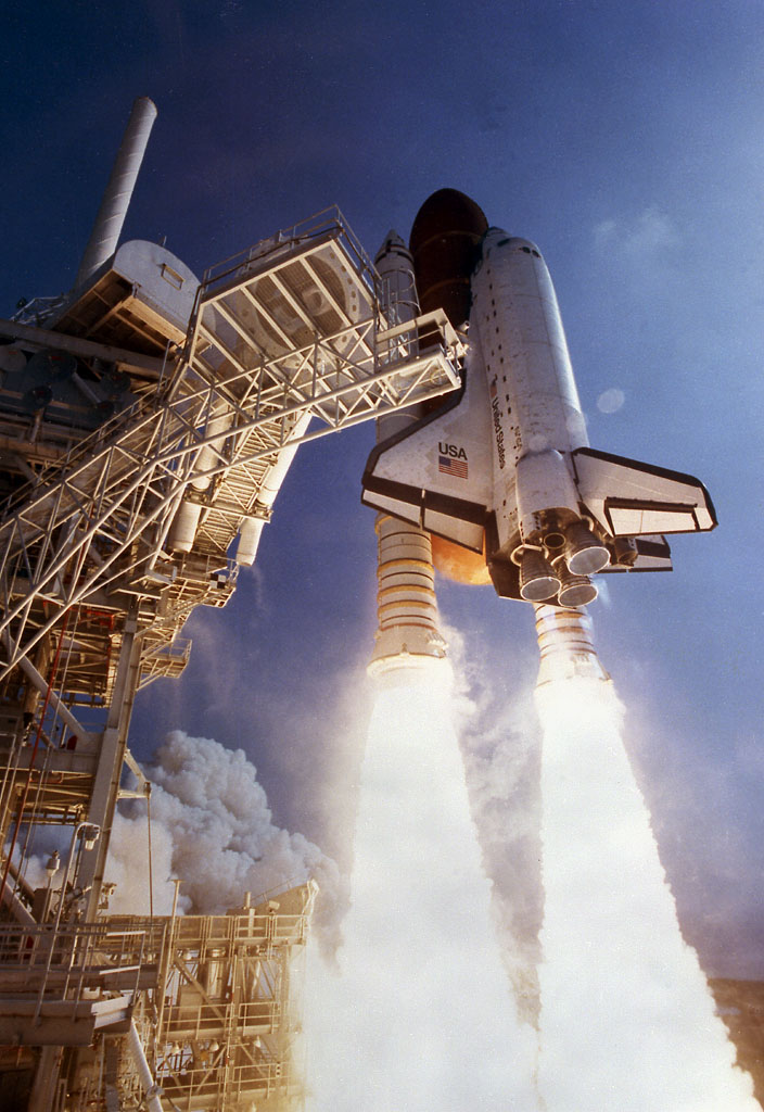 (July 31, 1992) Space Shuttle Atlantis' STS-46 mission launched on July 31, 1992 from the Kennedy Space Center. The mission's objective was to deploy the ESA's European Retrievable Carrier (EURECA). The mission also operated the joint NASA/Italian Space Agency Tethered Satellite System (TSS). The mission ended on August 8, 1992 when Atlantis landed back at the Kennedy Space Center. MSFC Negative # : 9261132 Image # : MSFC-75-SA-4105-2C